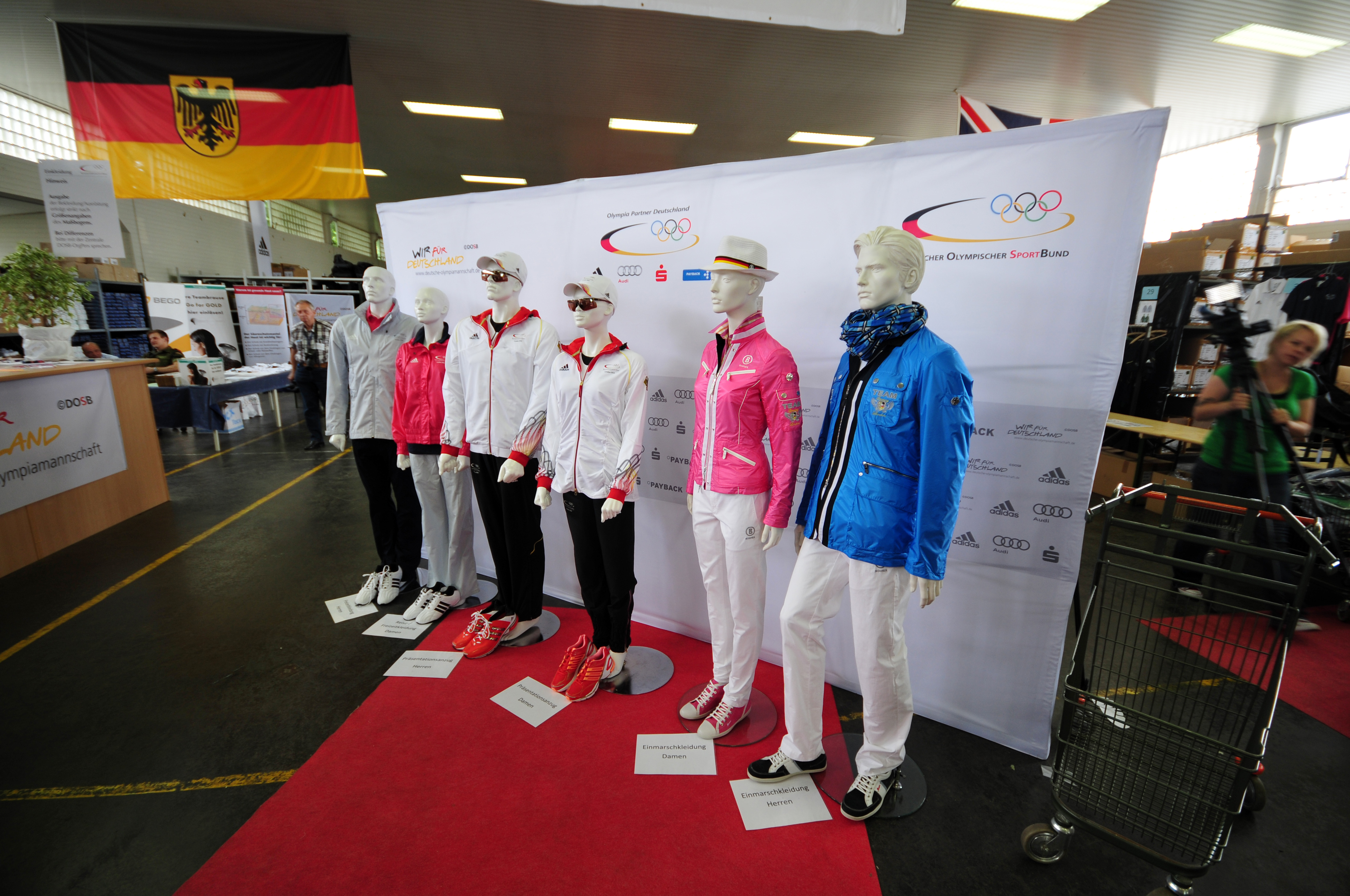 Outfitting the Olympic teams of Germany 2012 Einkleidung der deutschen Olympiamannschaft am 28. Juni 2012 in Mainz - Olympische Sommerspiele 2012 Cirdan Marcus Cyron Olaf Kosinsky Ralf Roletschek Sven Teschke